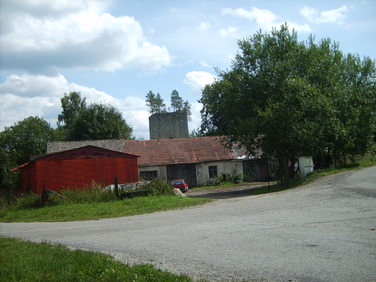 Tower of citadel in Tichá, Dolní Dvořiště municipality